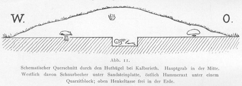 Section of the mound